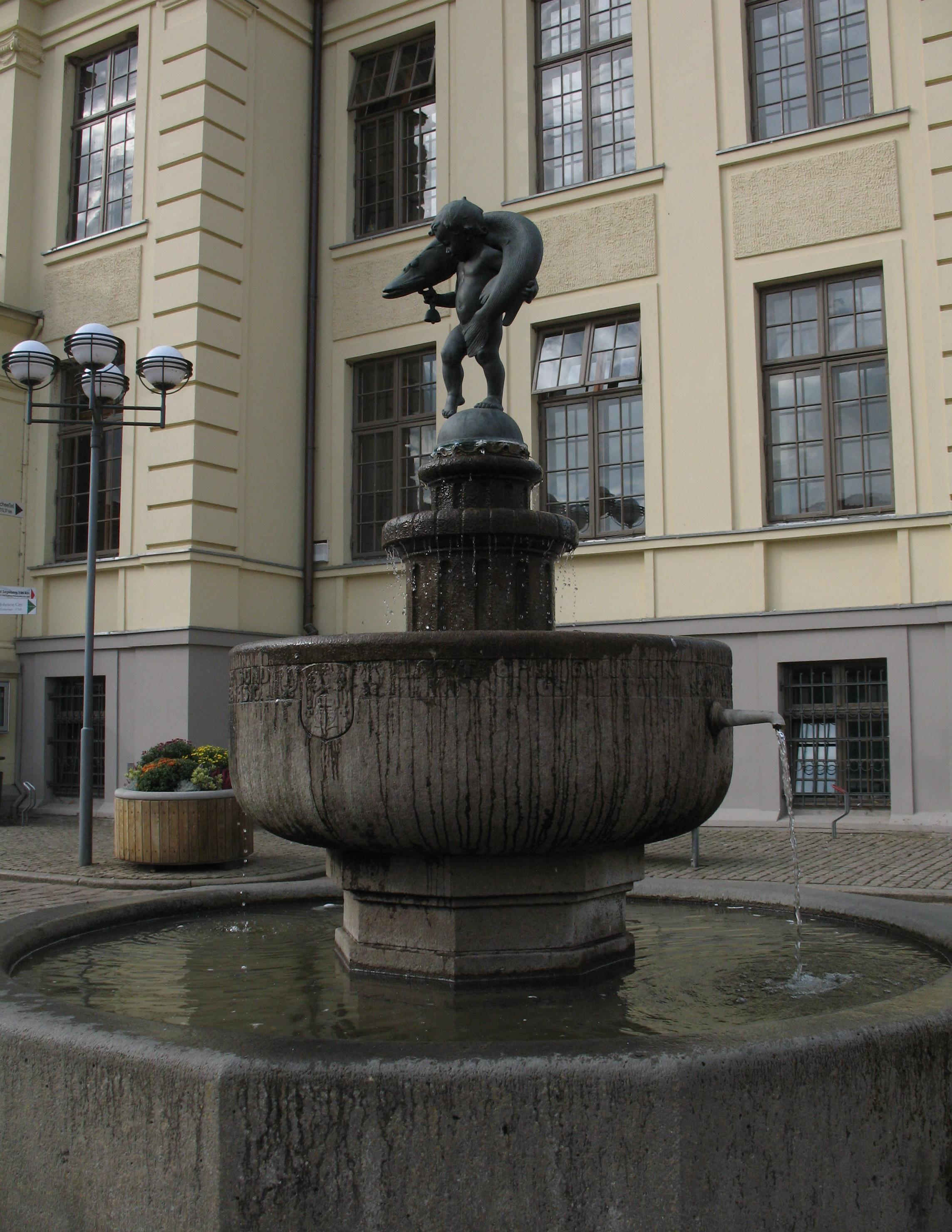 Fountain in Teterow in Mecklenburg-Western Pomerania, Germany